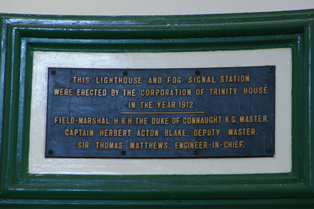 Plaque at Mannez Lighthouse, Alderney, Channel Islands. Reads "This lighthouse and fog signal station were erected by the corporation of Trinity House in the year 1912. Field-Marshal H.R.H. The Duke of Connaught K.G., Master. Captain Herbert Acton Blake, Deputy Master. Sir Thomas Matthews, Engineer-In-Chief."